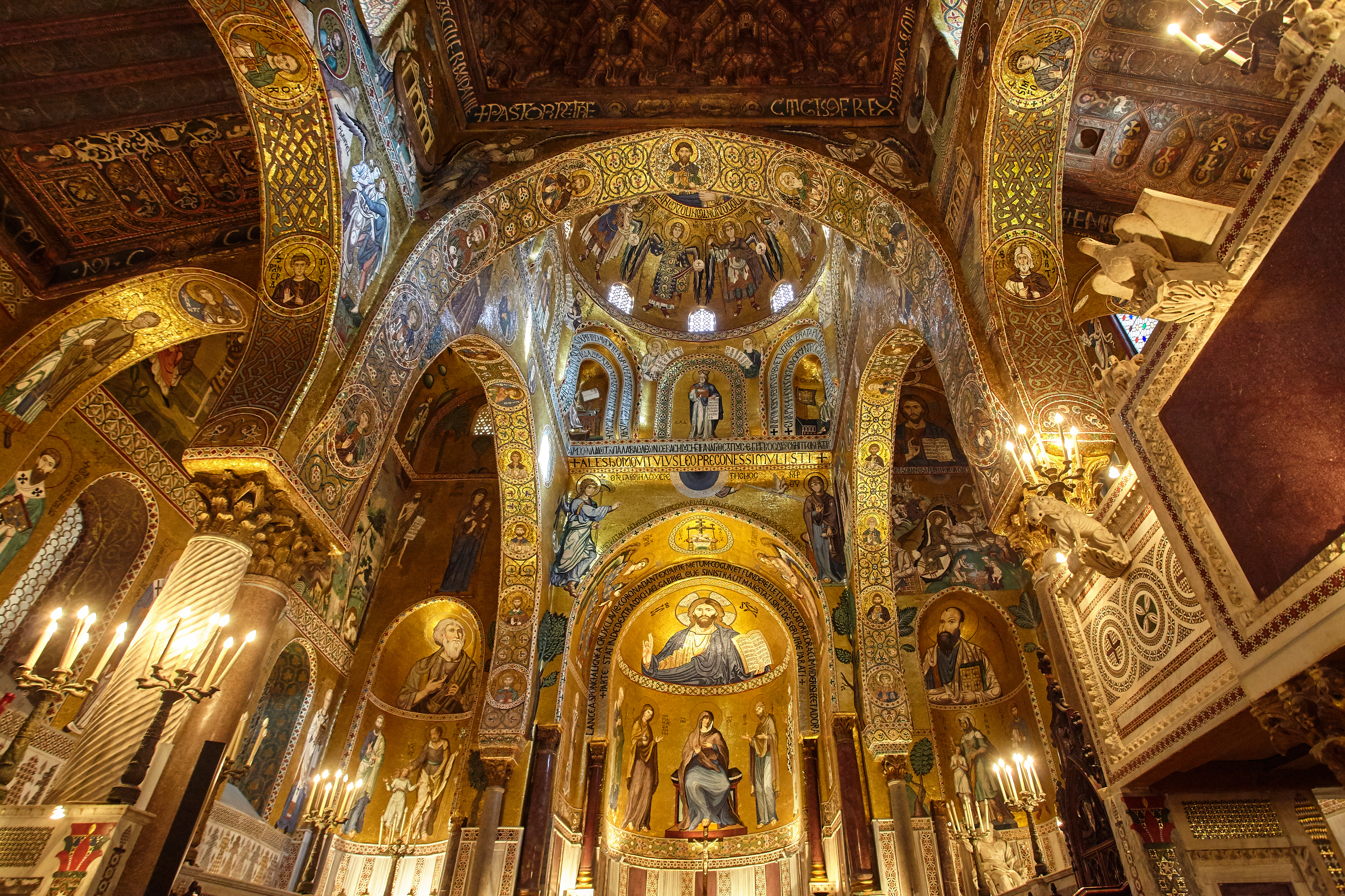 Interior of Cappella Palatina, Palermo, Sicily